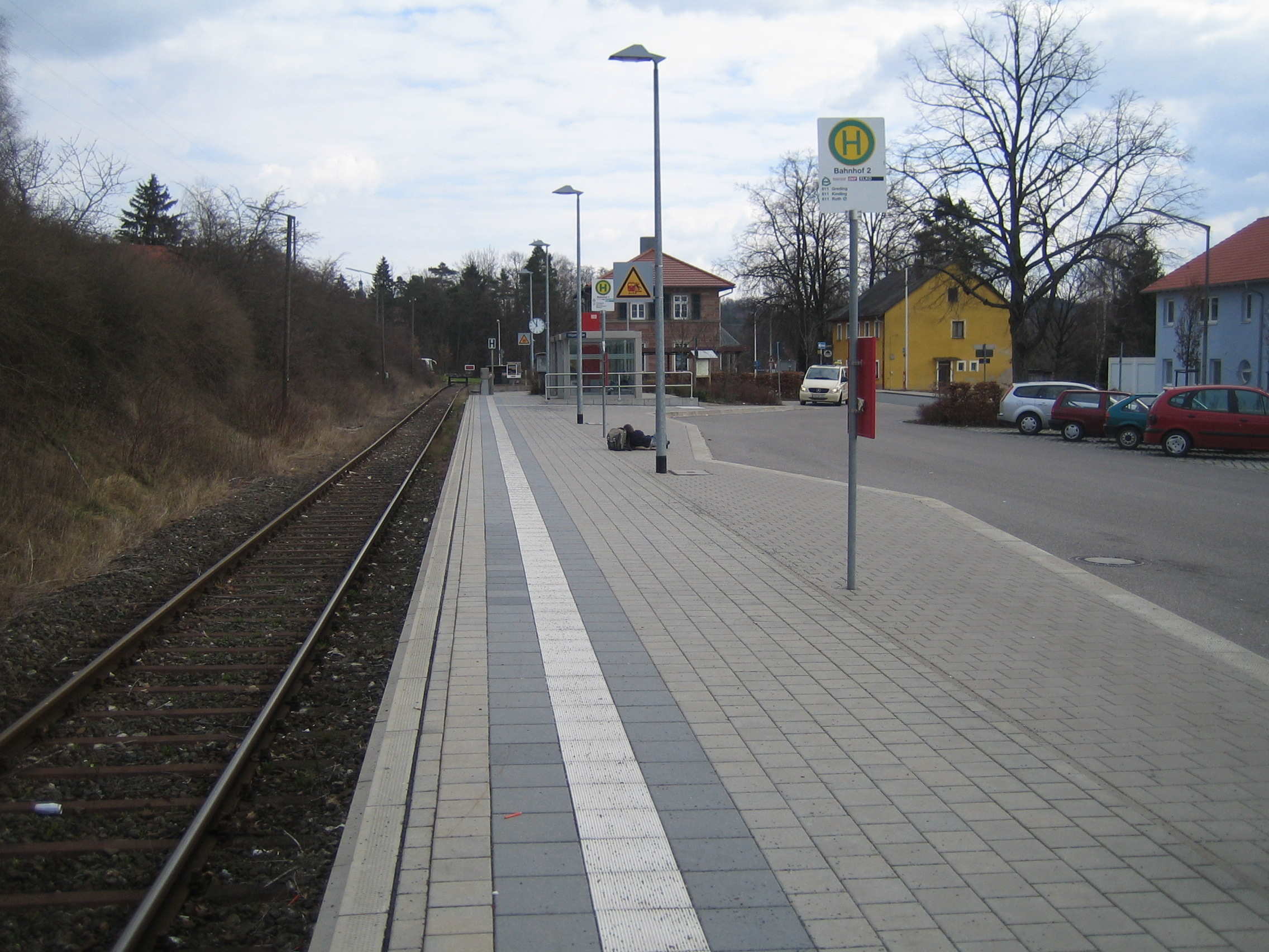 The train station of Hilpoltstein (Germany) with a same-level platform, a waiting area for passengers, bus cutouts and car park.